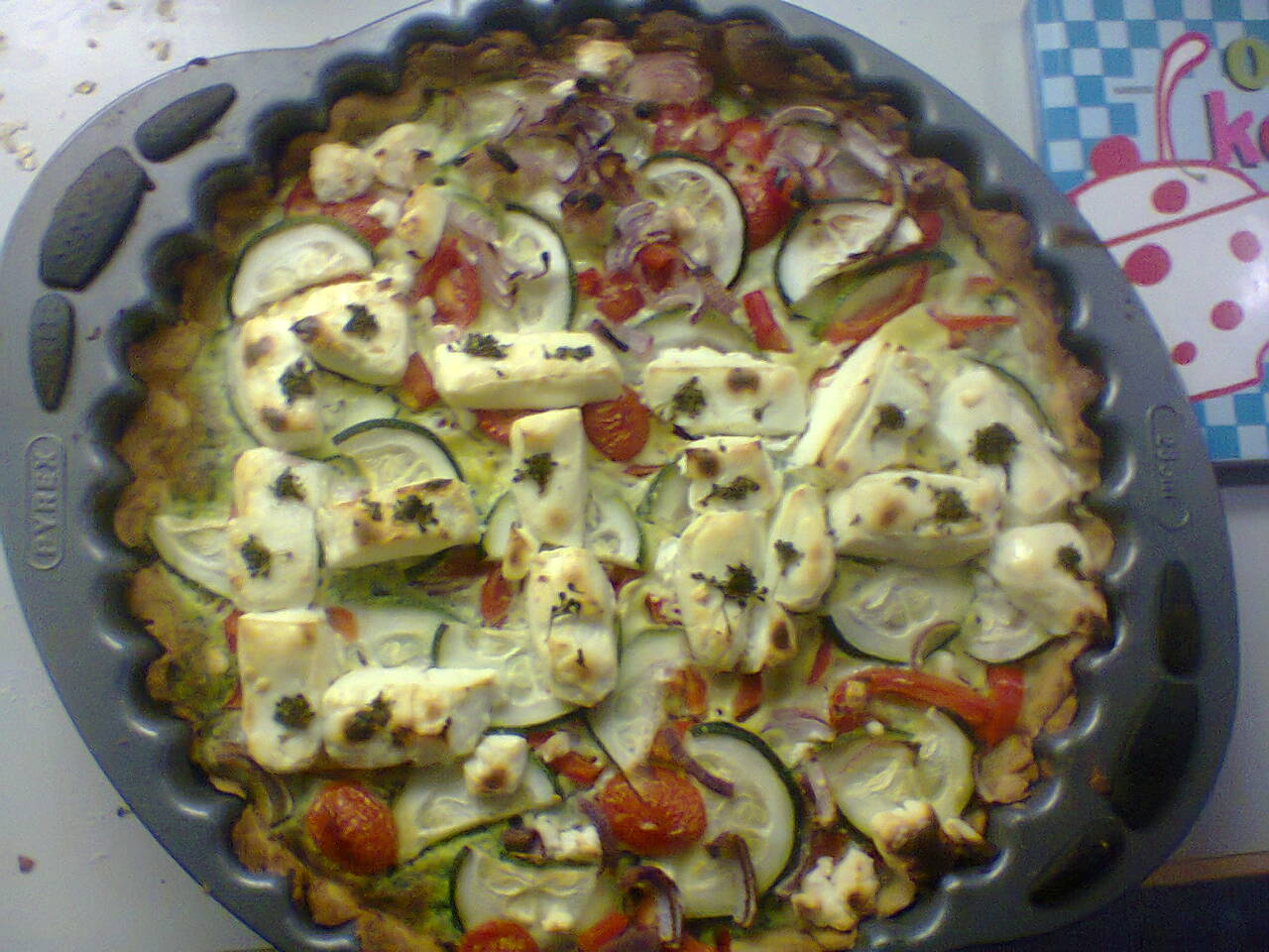 A feta-vegetable pie